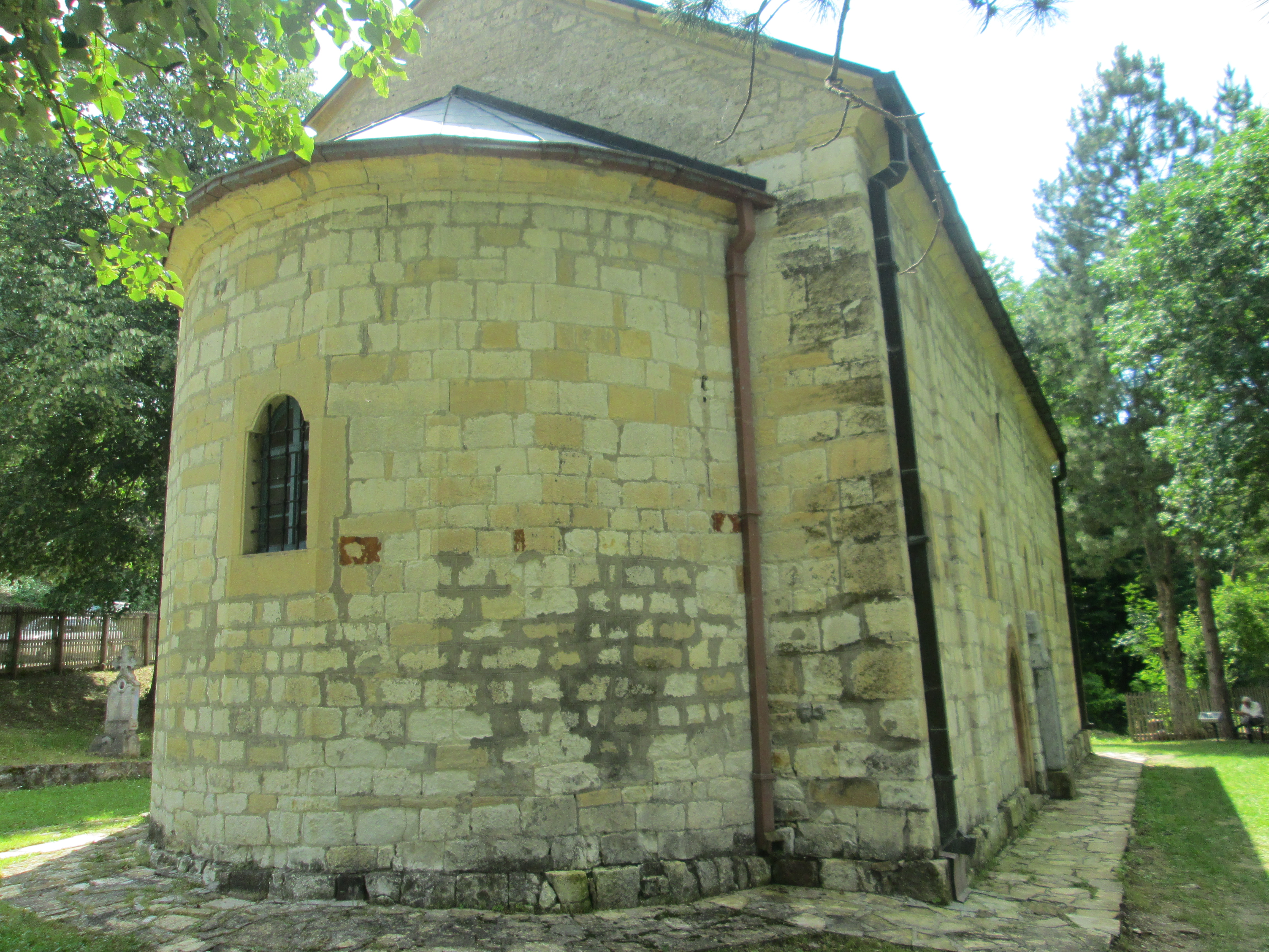 Church of Saints Peter and Paul, Gornja Dobrinja Српски (ћирилица): Црква Светих Петра и Павла, Горња Добриња